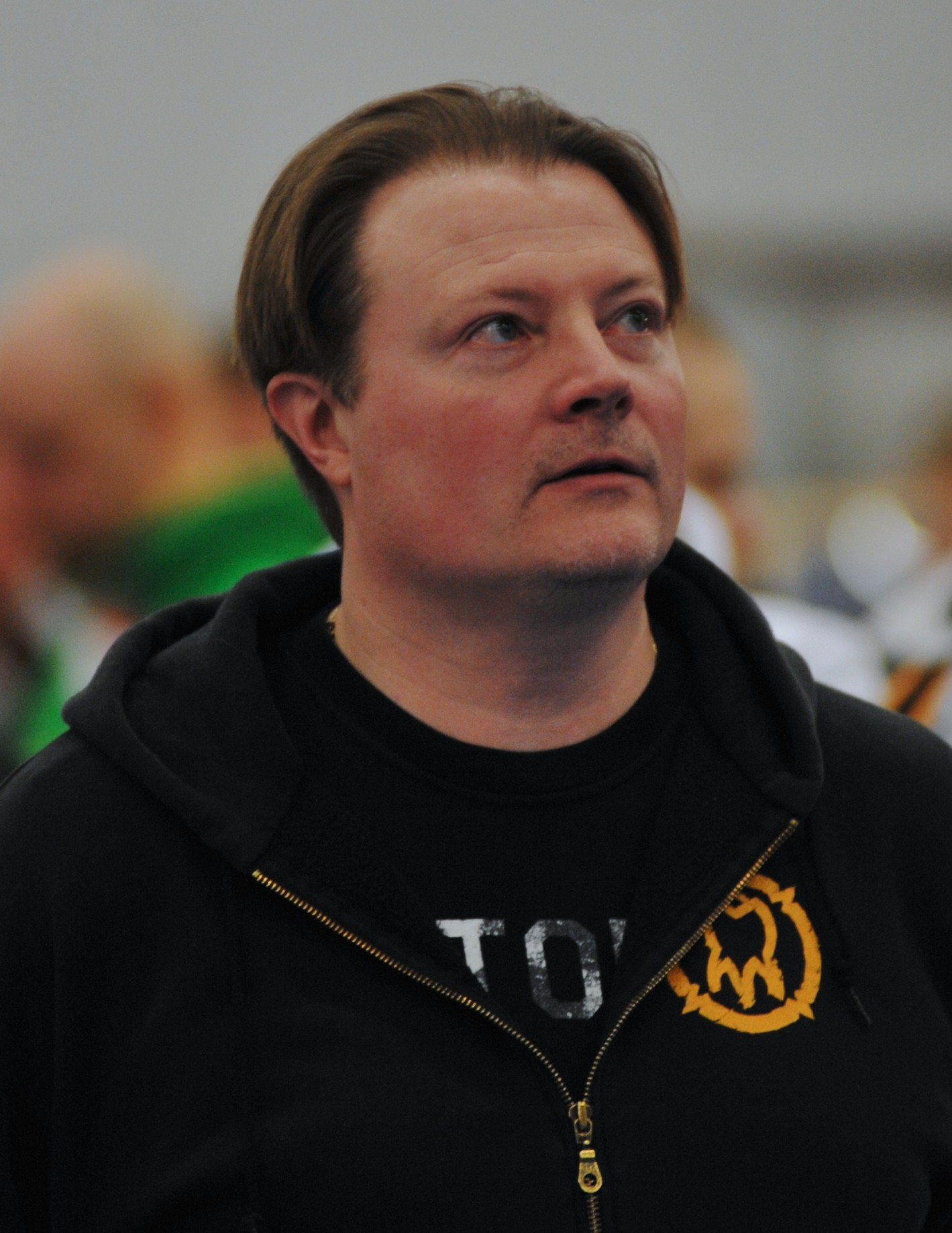 Kari Hietalahti, Finnish actor, Go Expo, Helsinki, March 2011.